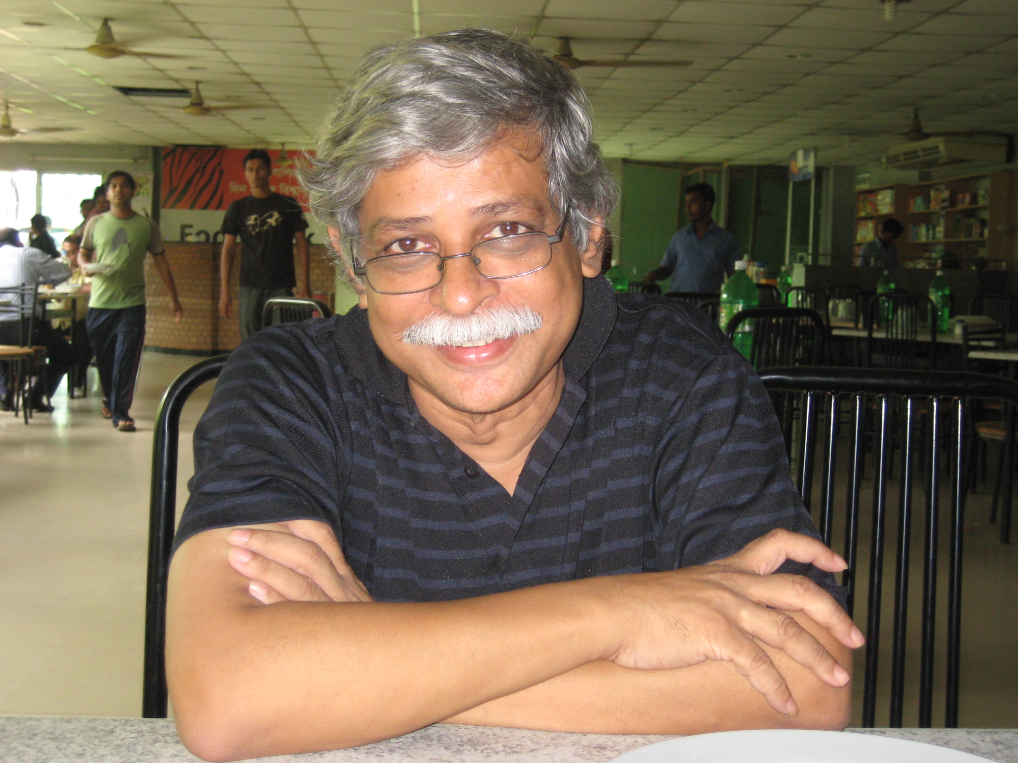 Muhammad Zafar Iqbal